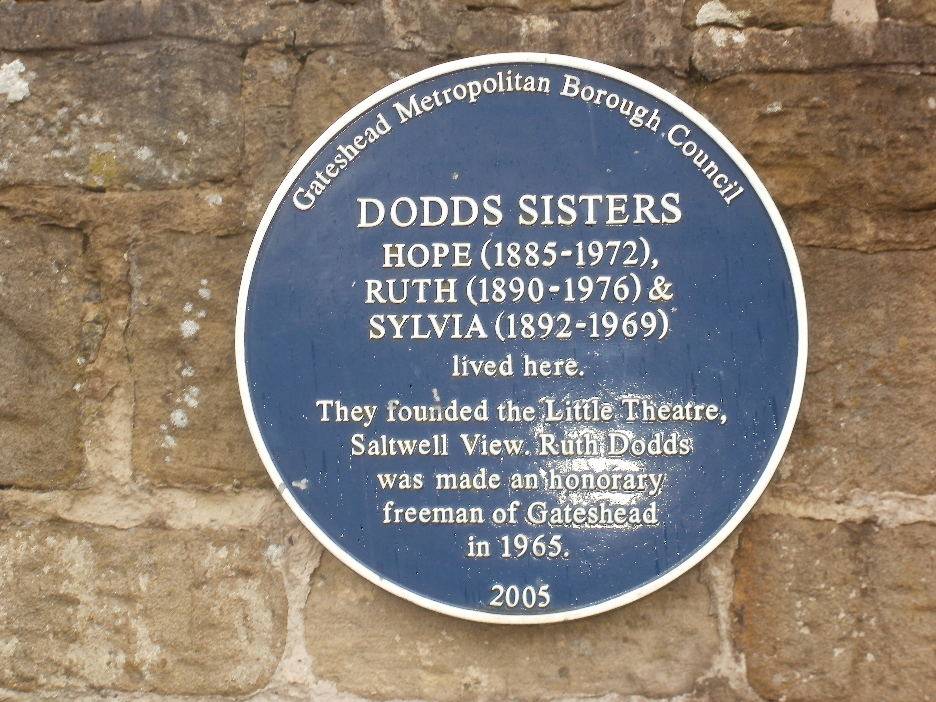 This Gateshead Blue Plaque was erected in honour of the Dodds Sisters, co-founders of the Little Theatre, Gateshead. Ruth Dodds was also a formidable local politician. The plaque is erected on the walls of Home House at Kells Lane, Low Fell, where all three sisters lived.